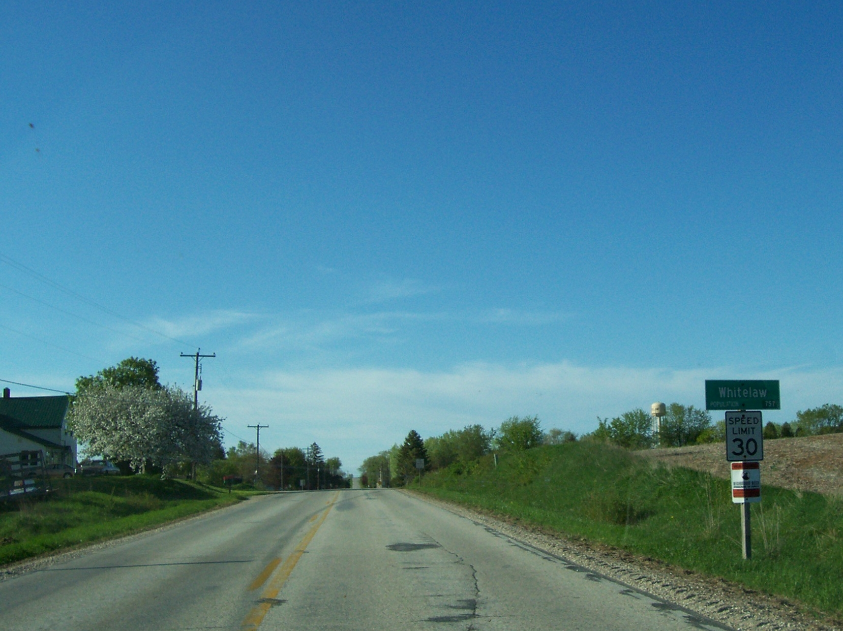 Looking north at the sign for Whitelaw, Wisconsin, USA.